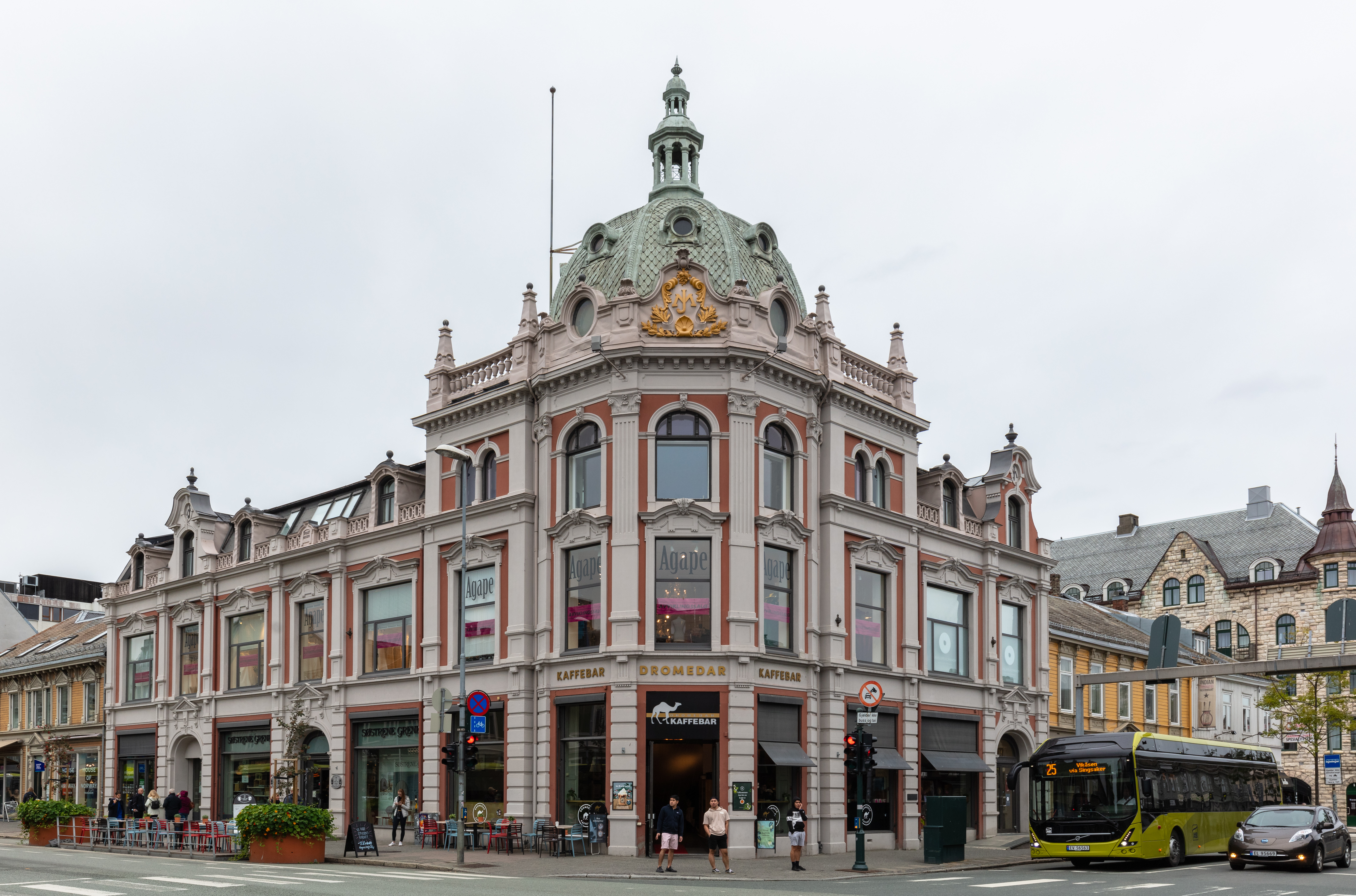 Building at Olav Tryggvasons 14, Trondheim, Norway